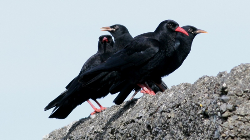 Chough (Pyrrhocorax pyrrhocorax)